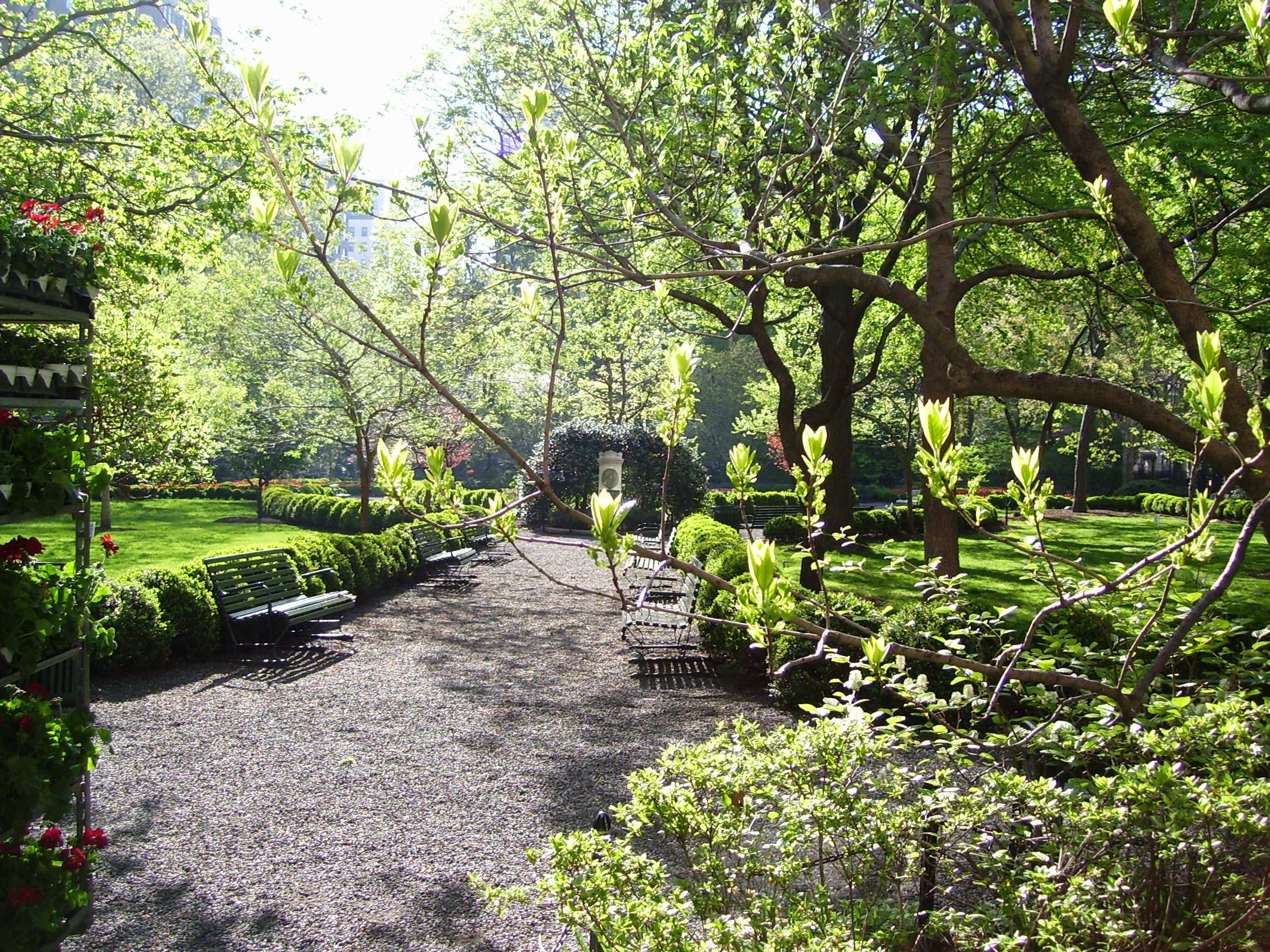 Interior of Gramercy Park, from the west gate